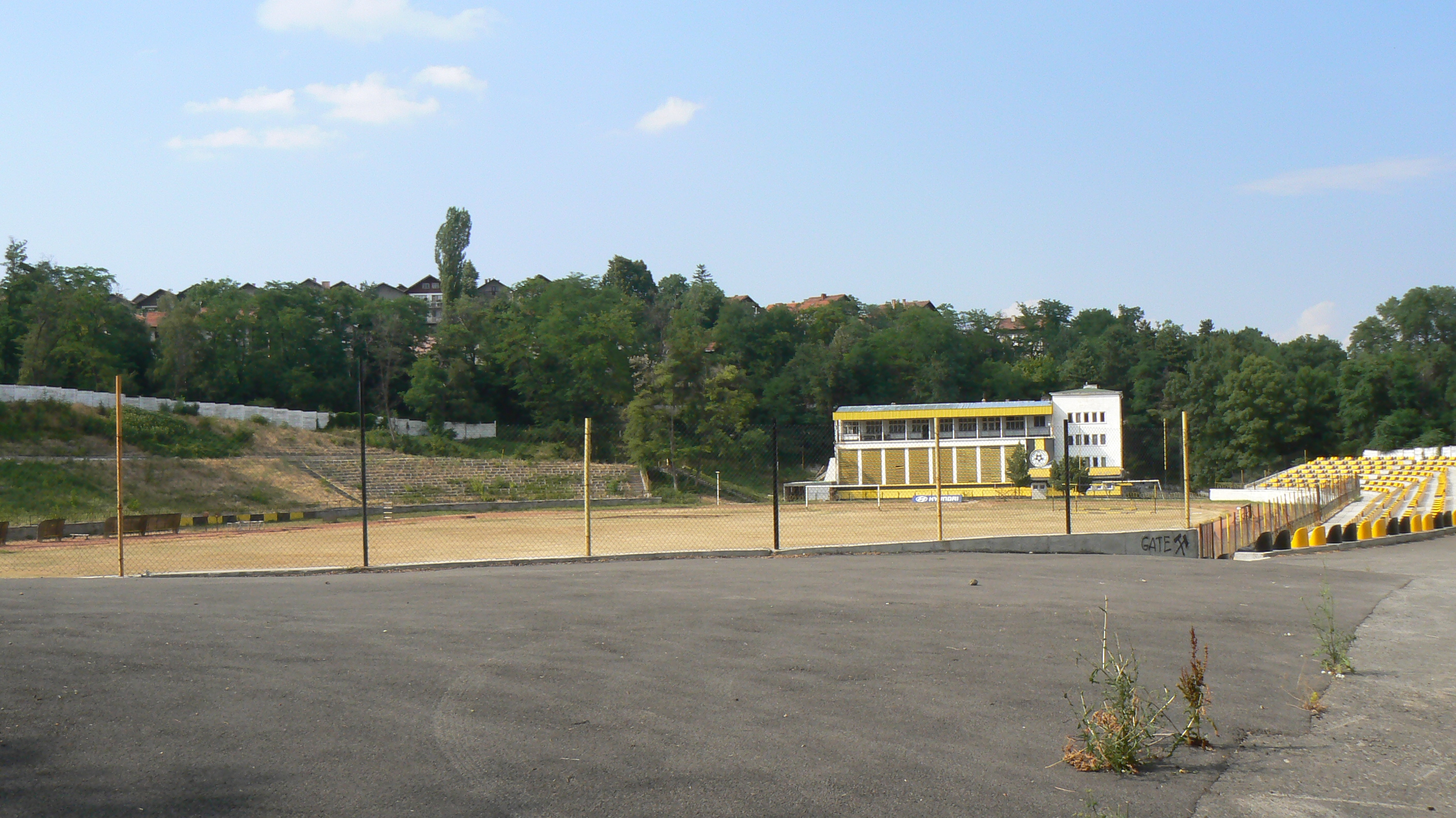 The football stadium "Minyor" in town Pernik, Bulgaria